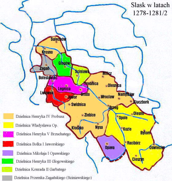 Political map of Silesia 1278-1281